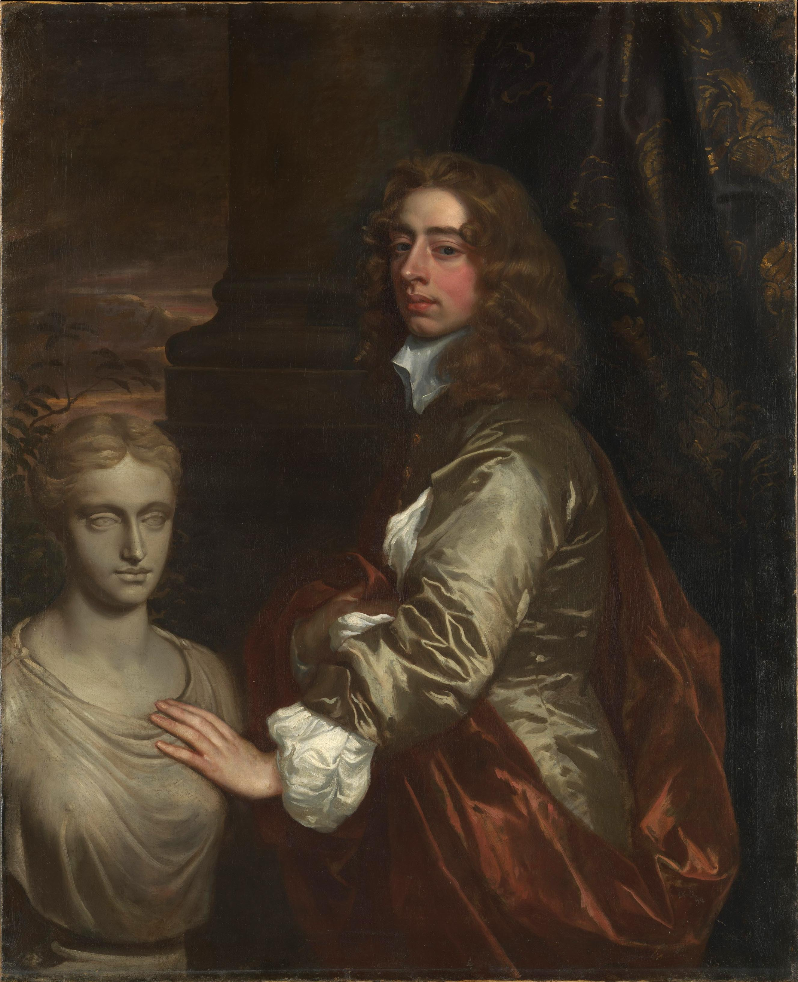 Portrait by Sir Peter Lely of Henry Capel (1638–1696), Baron Capel of Tewkesbury, the younger brother of Mary and Elizabeth Capel, and Arthur Capel (1632–1693), first Earl of Essex. The picture may have been painted on the occasion of Henry Capel's marriage to Dorothy Bennett in 1659. They lived at Cassiobury House, Watford. The portrait was sold with other Cassiobury estate assets in 1922-3 and now hangs in the Metropolitan Museum of Art in New York.